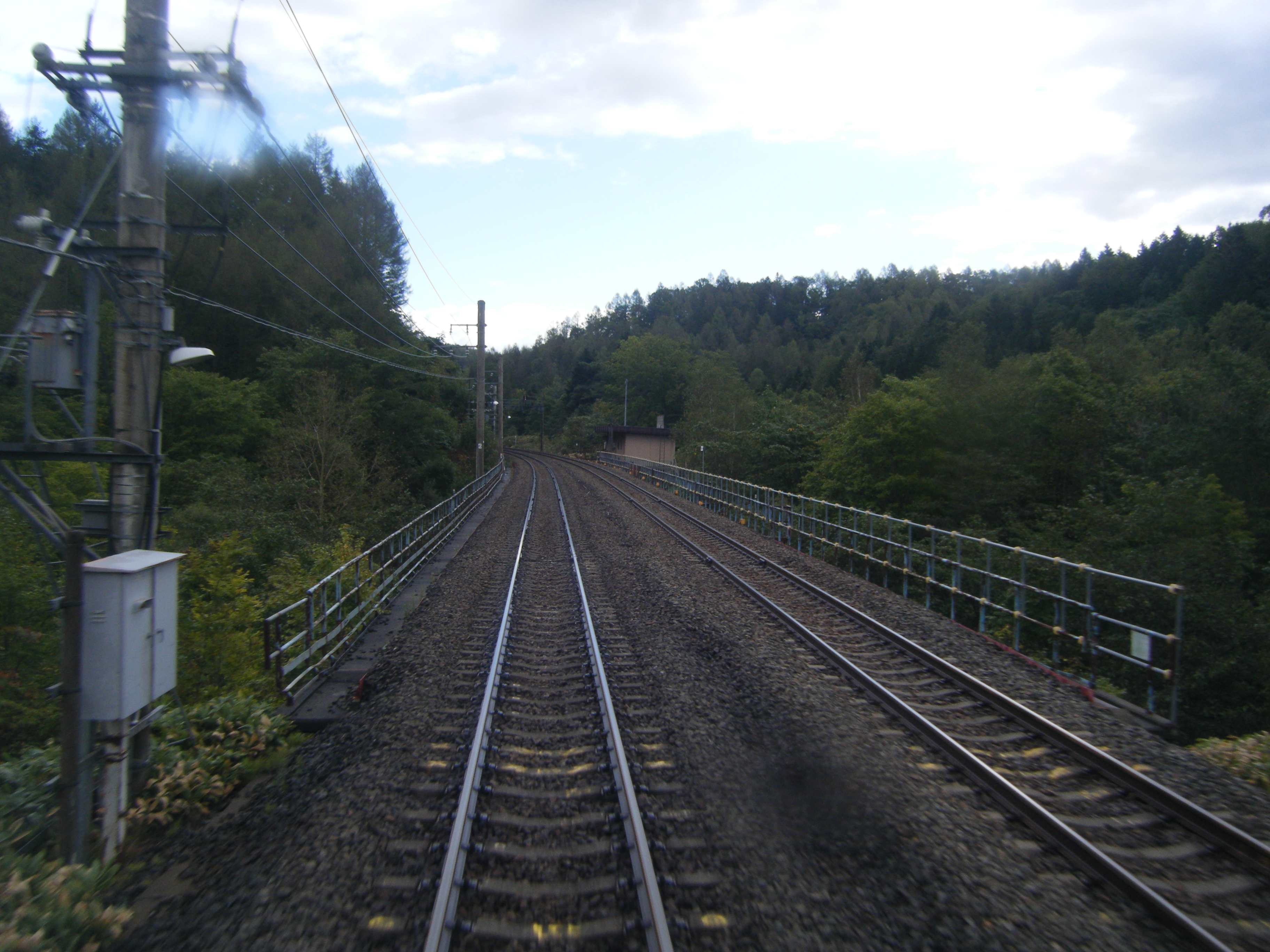 Osawa Signal Base viewed from Super Ozora train